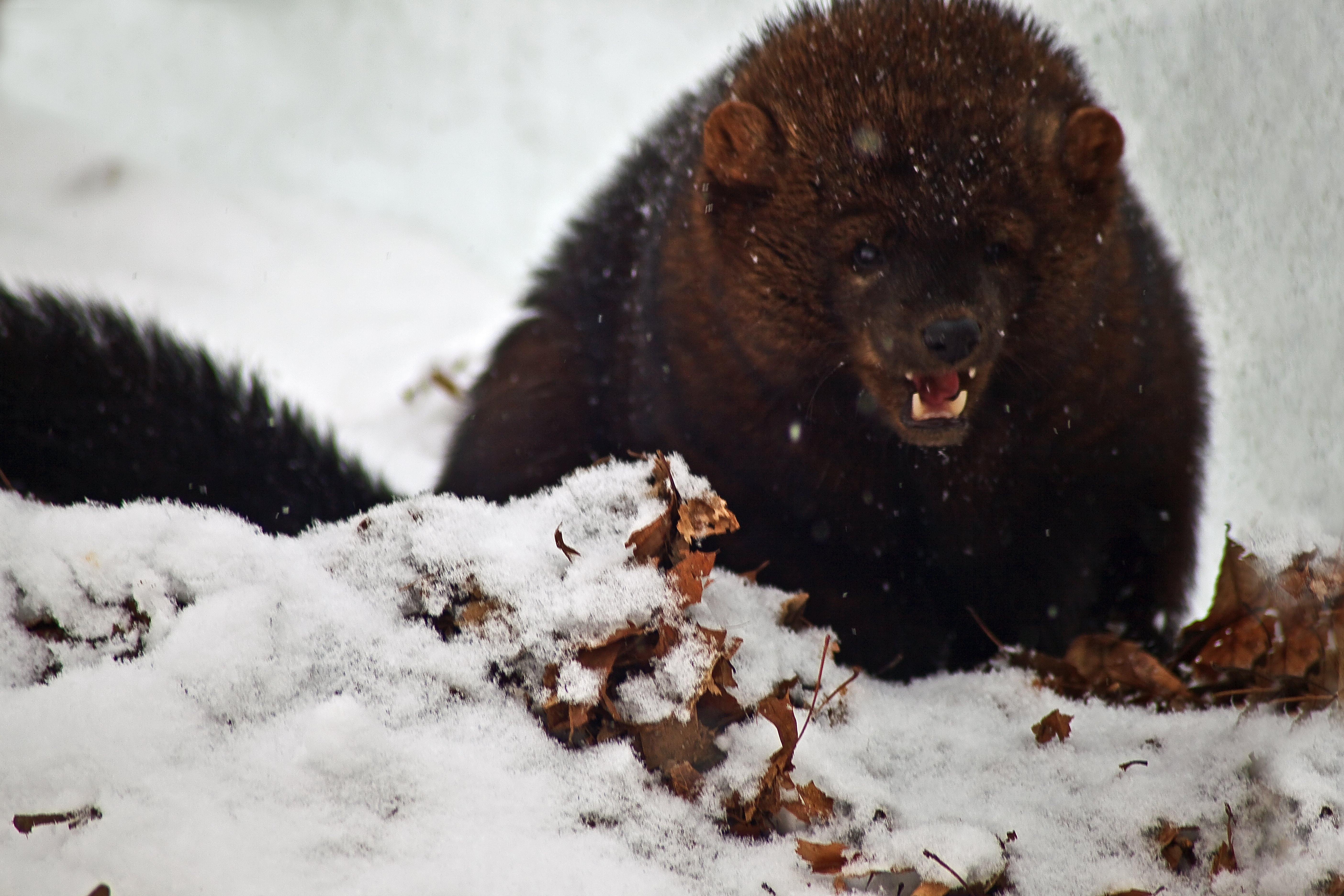 Ferocious Wild Animal Fisher Teeth Snow